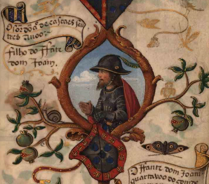 Afonso, Lord of Cascais (1370-?), son of Infante John, Duke of Valencia de Campos.